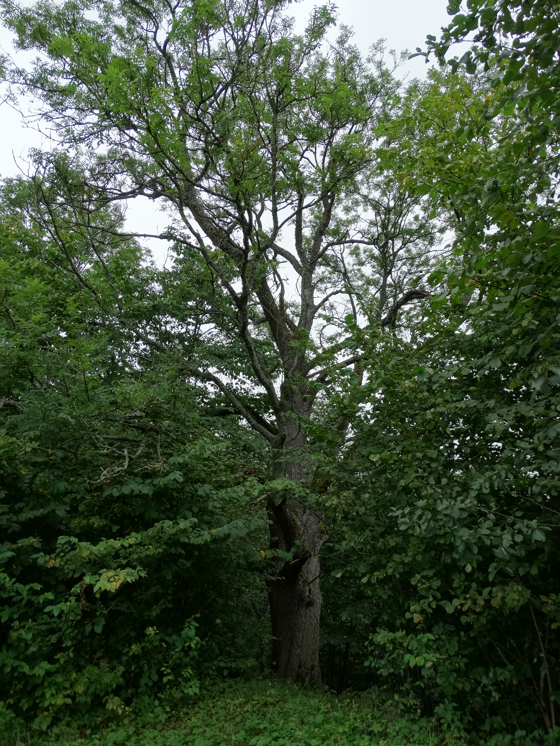 Fraxinus excelsior tree in Buivydai, Anykščiai District, Lithuania